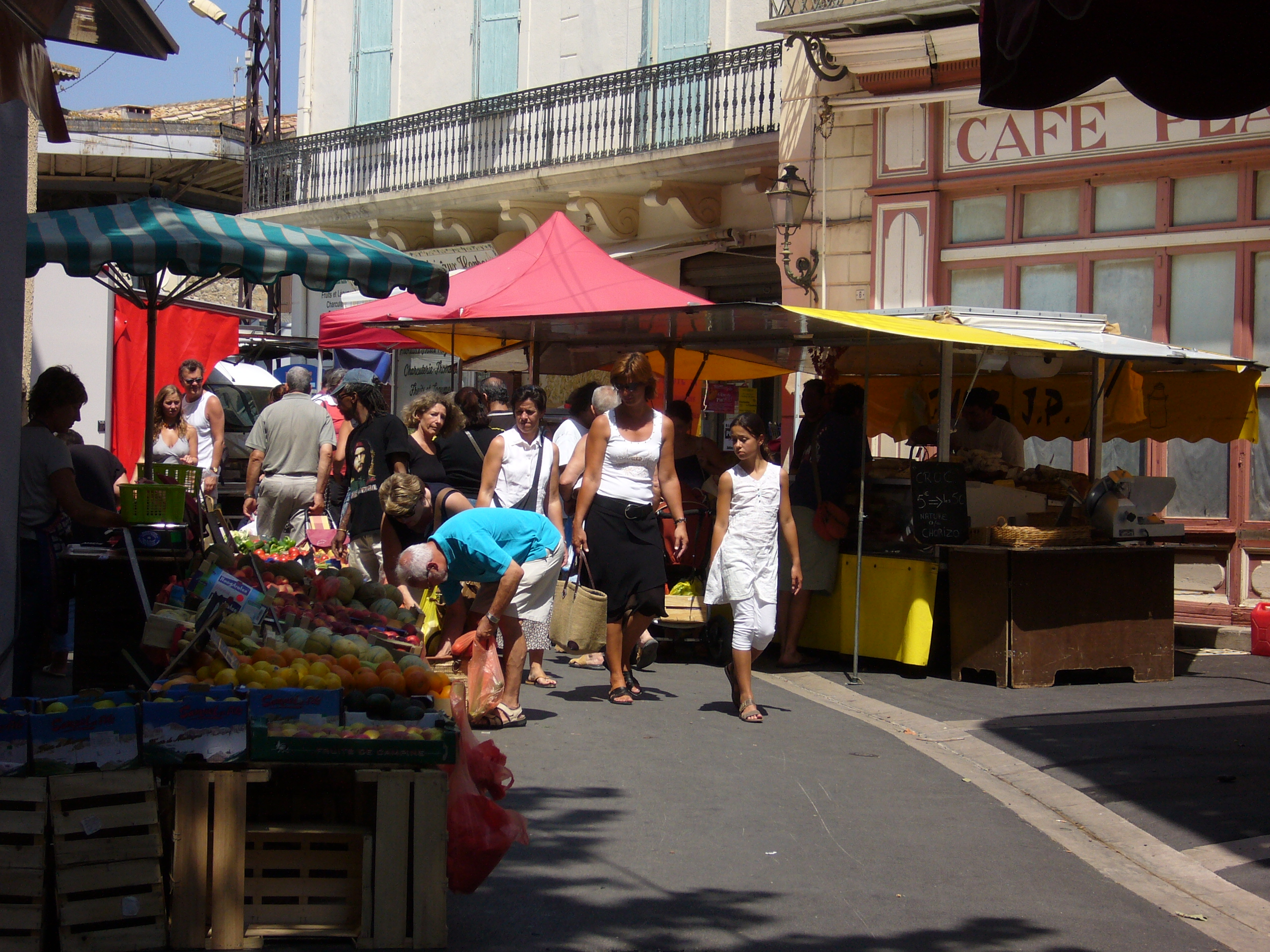 Olonzac is the main town of the Minervois area